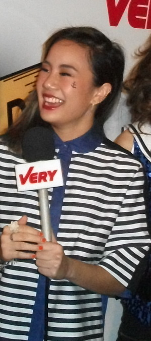 Note The Star at VERY TV 1st Anniveresary